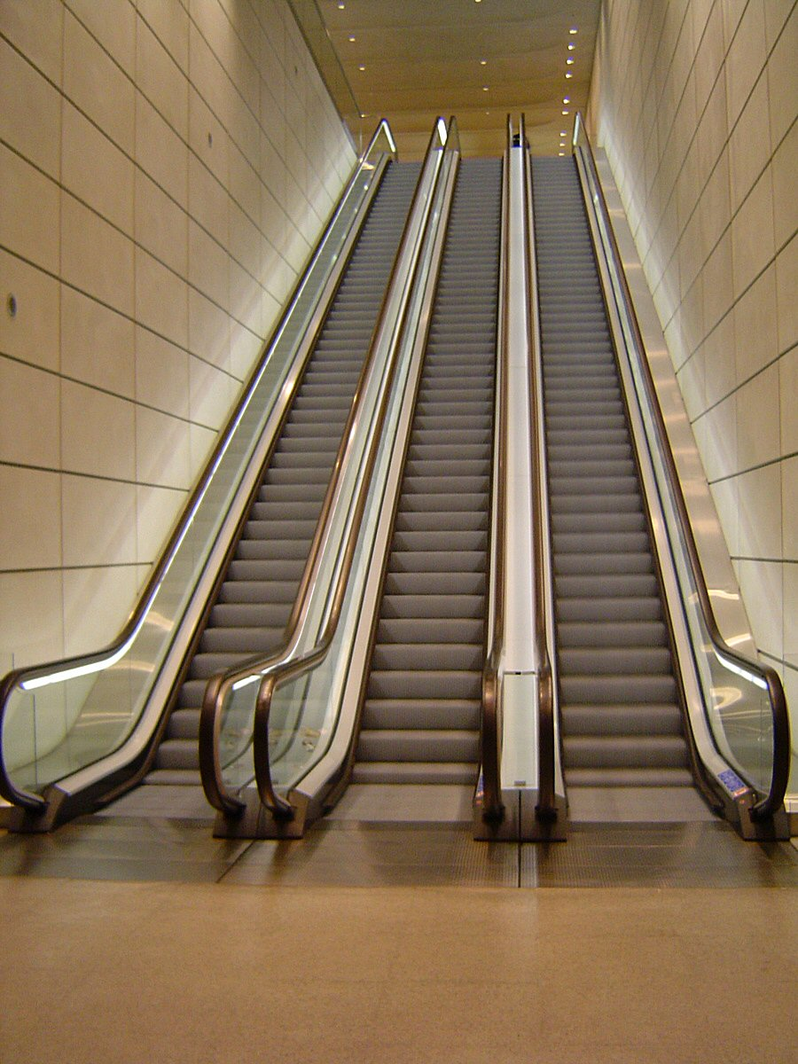 Escalators at Canary Wharf, London